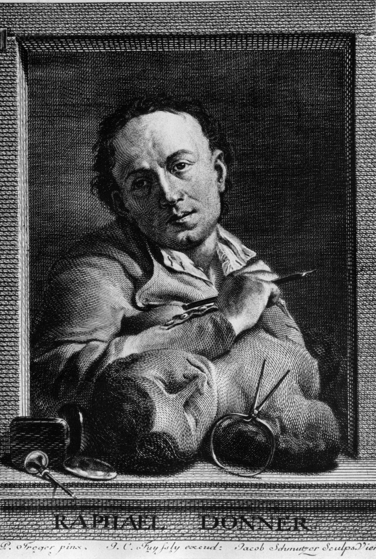 Georg Raphael Donner (1693-1741); 15:11 cm